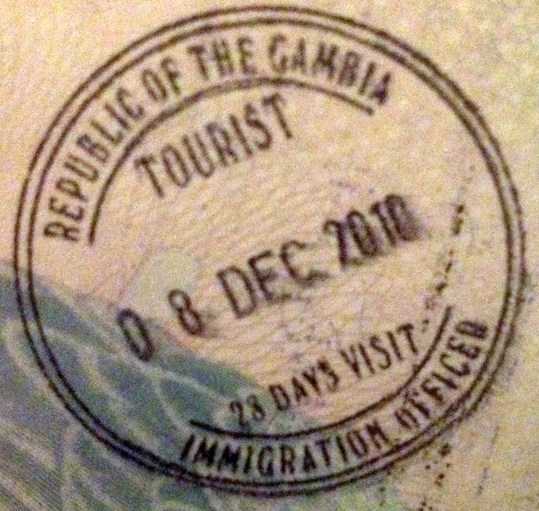 entry stamp for gambia